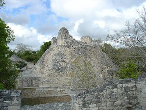 Image by George And Audrey DeLange, Release via e-mail: Hi, Bill, How fun! George and I would be delighted to have you use our photos. I'm very familiar with Wikipedia. Best Regards, Audrey